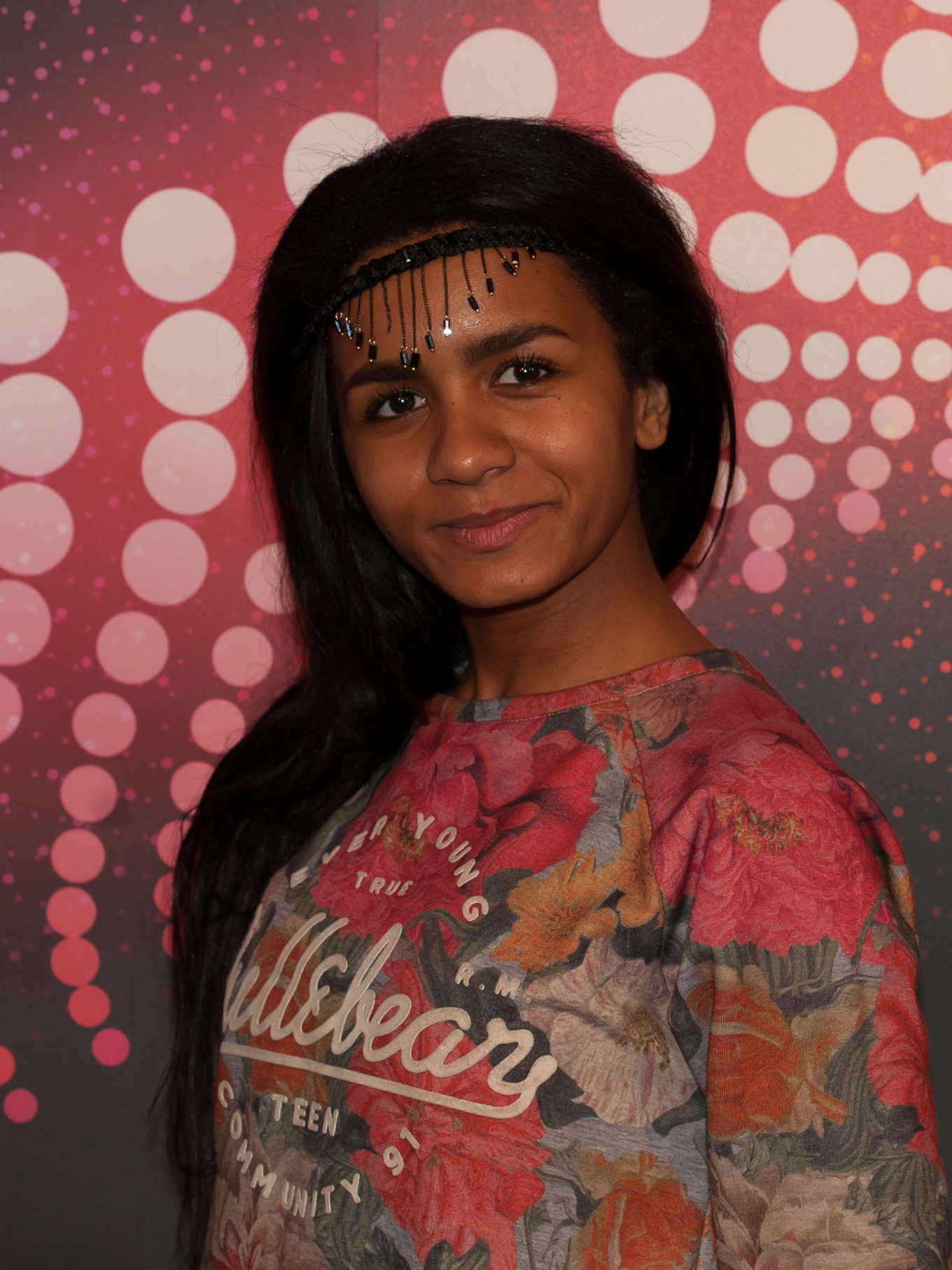 Eurovision Song Contest Vienna 2015: Aminata